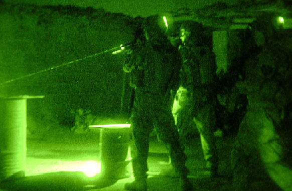 Stryker soldiers assigned to Company B, 4th Battalion, 9th Infantry Regiment, prepare to enter a mud stall during the clearing of a village in the outskirts of Baqouba, Iraq, June 19, 2007. The operation known as “Arrowhead Ripper,” isolates Baqouba to prevent insurgents from getting in, or out, of the city.